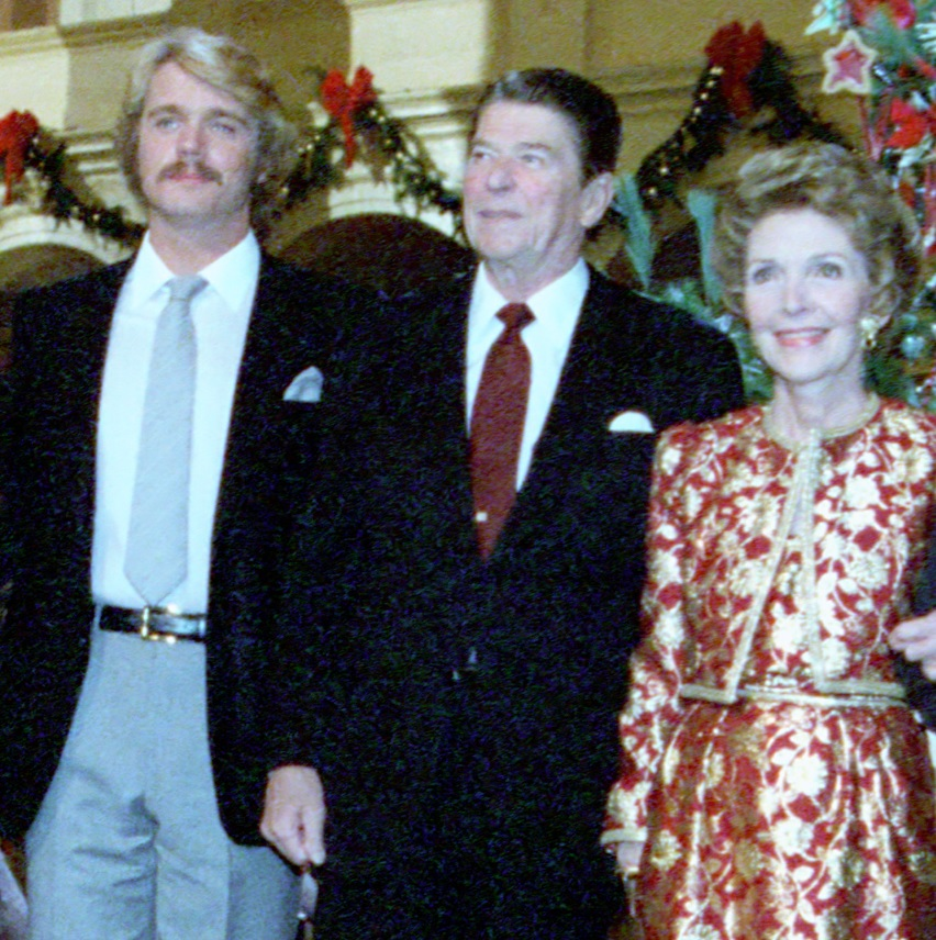 Actor John Schneider poses with President Ronald Reagan and First Lady Nancy Reagan during a taping of the NBC TV special Christmas in Washington on December 12, 1982 at the Pension Building in Washington, D.C.